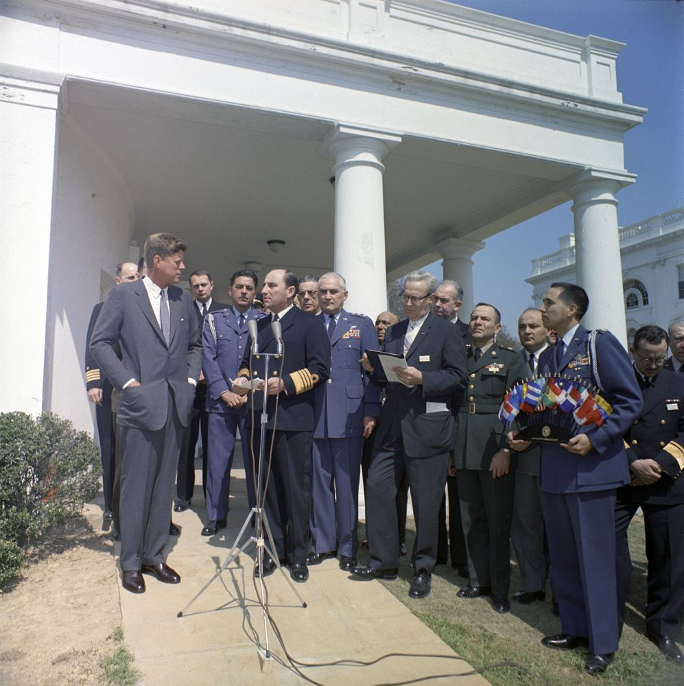 President John F. Kennedy visits with delegates from the Inter-American Defense Board (on the occasion of the board’s 20th anniversary) in the Rose Garden of the White House, Washington, D.C. Left to right: President Kennedy; Naval Aide to the President, Captain Tazewell Shepard; Air Force Aide to the President, Brigadier General Godfrey T. McHugh; Admiral Alberto Pablo Vago, Argentine Navy (at microphones); Brigadier General Orlando Gomes Ramagem, Brazilian Army (in back); Chairman of the Inter-American Defense Board, Lieutenant General Robert W. Burns; unidentified man (in back); unidentified interpreter; Rear Admiral Alfredo Martin, Chilean Navy (behind interpreter); unidentified; Colonel Gonzalo Coba Cabezas, Ecuadorian Army; unidentified man (holding flags); Rear Admiral Guillermo Haywood, Paraguayan Navy; Staff Director of the Inter-American Defense Board, Brigadier General James W. “Lou” Coutts (on edge of frame).